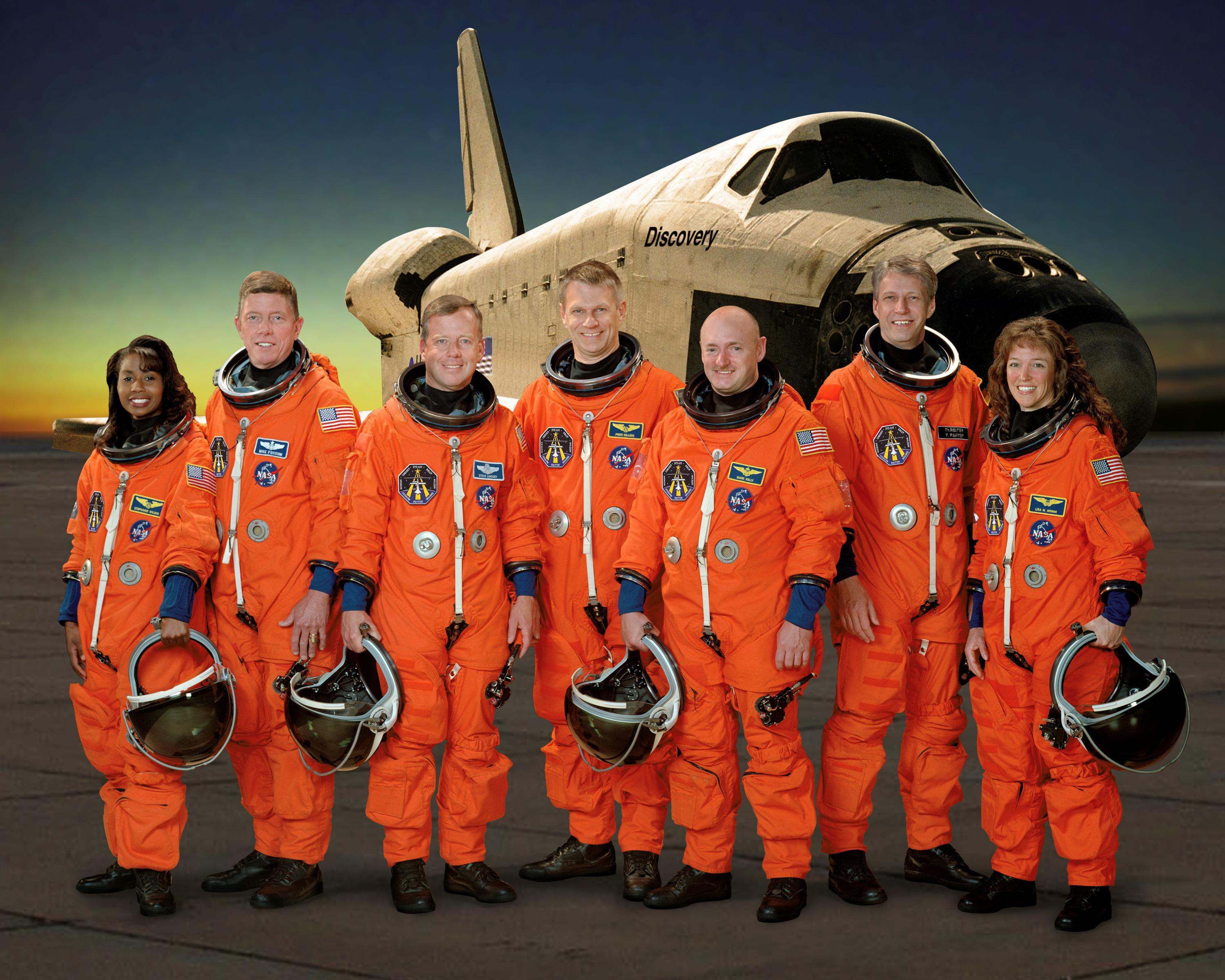 STS-121 astronauts take a break from training to pose for a crew portrait. From the left to the right: Stephanie D. Wilson, Michael E. Fossum, Steven W. Lindsey, Piers J. Sellers, Mark E. Kelly, European Space Agency (ESA) astronaut Thomas Reiter of Germany and Lisa M. Nowak.